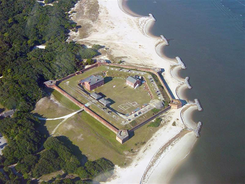 Fort Clinch October 23, 2003